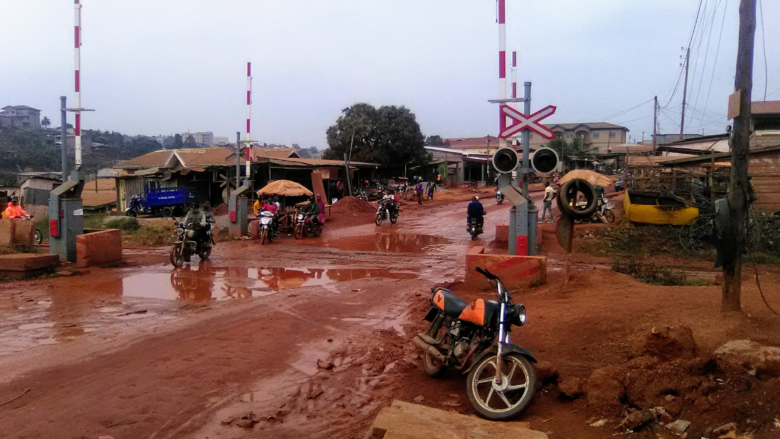 This is an image with the theme "Africa on the Move or Transport" from: Cameroon